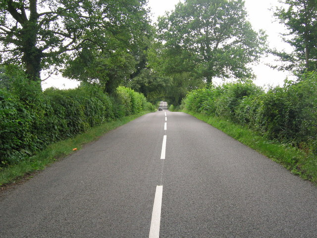 Moor Road (Ryknild Street) - near Breadsall. This dead straight section of Moor Road, on the way to Breadsall, is part of the Roman road known as Ryknild Street which ran from the Fosse Way at Bourton-on-the-Water in the Cotswolds to Templeborough near Rotherham.